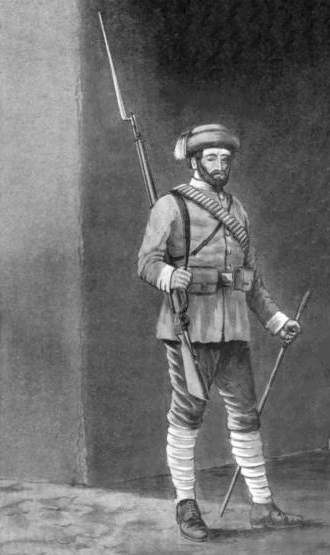 Afghan Army - infantry soldier (1890s)